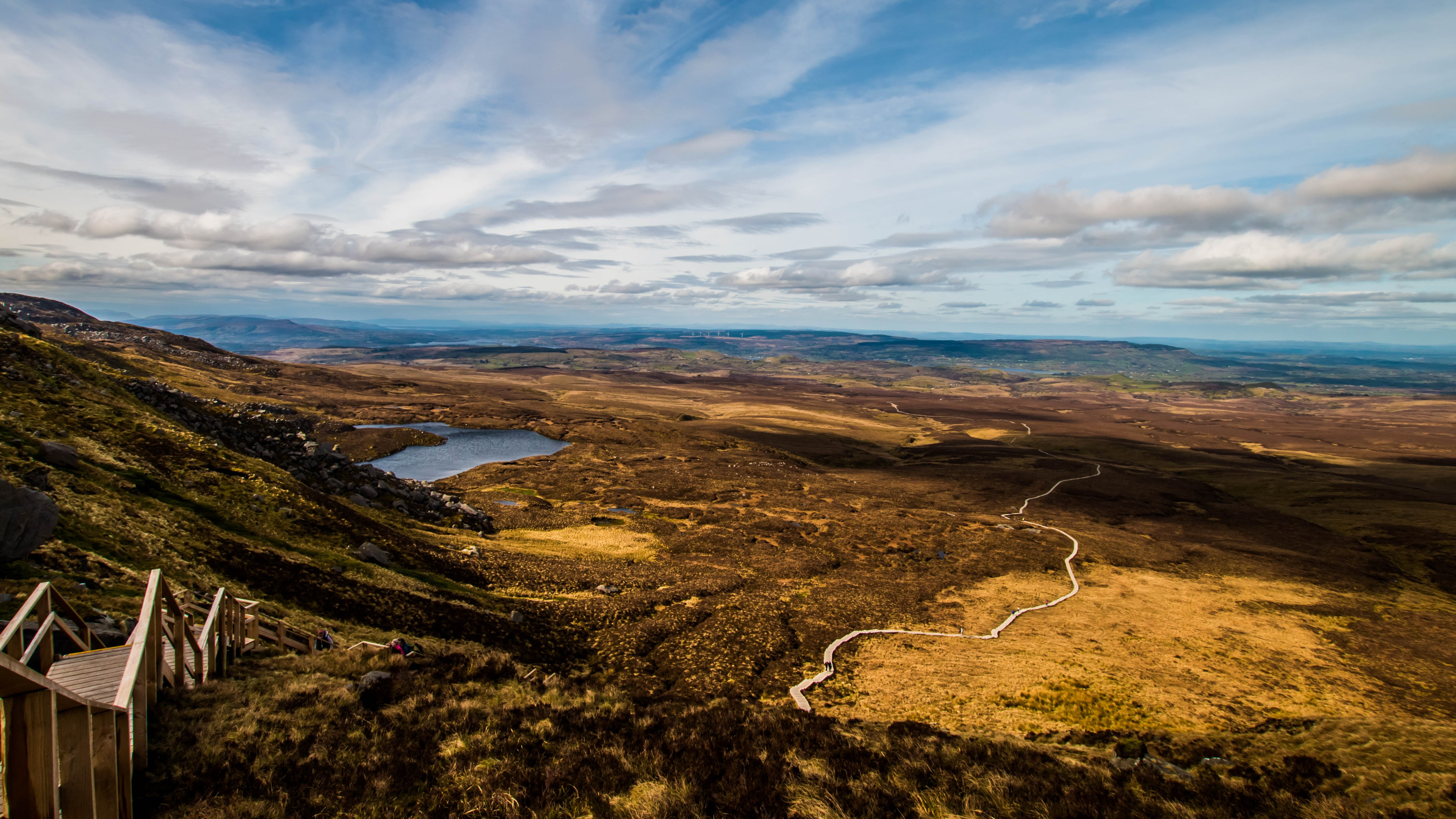 Stairway to Heaven in Cuilcagh by Carl Meehan